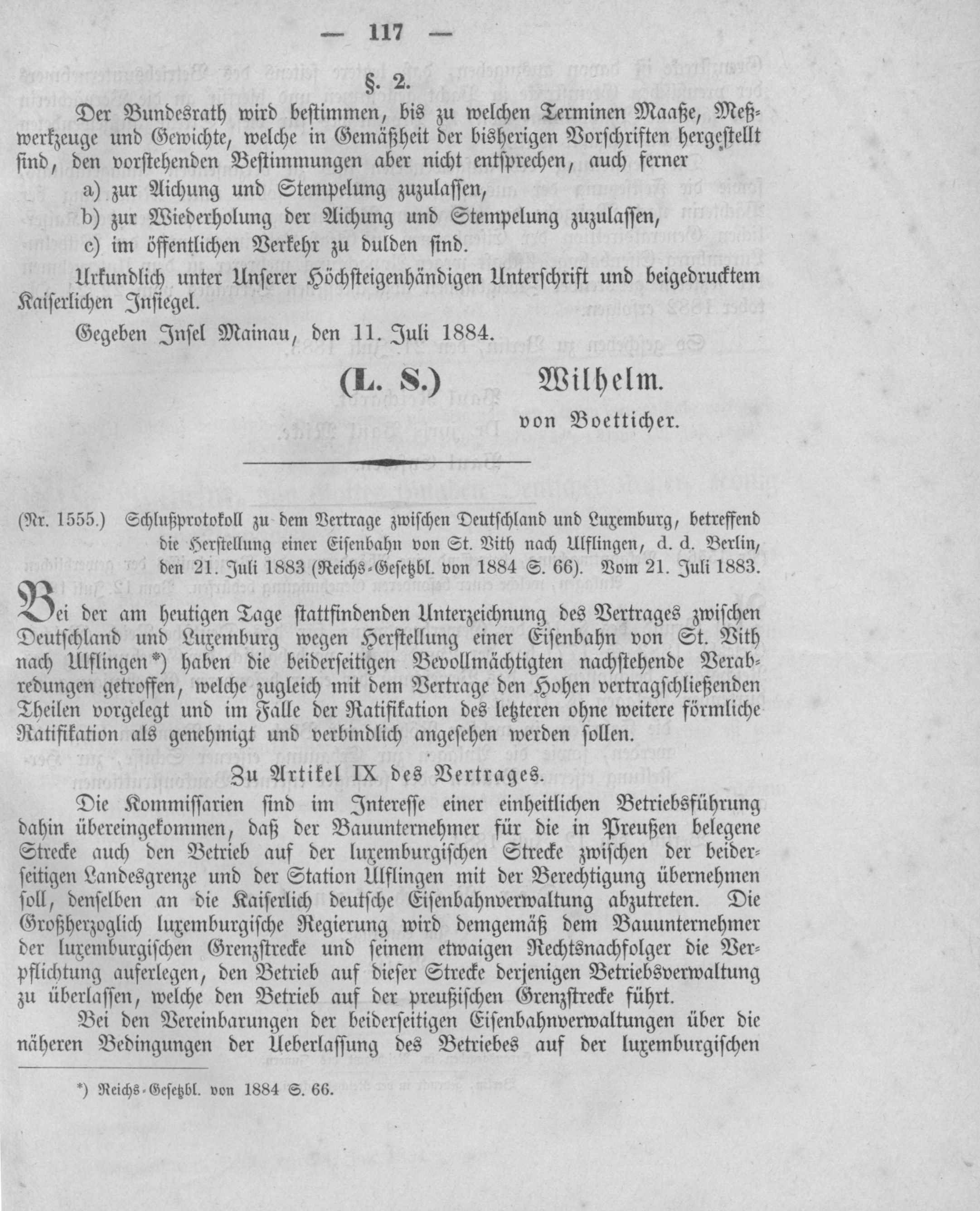 Scan from the Imperial Law Gazette of Germany, 1884